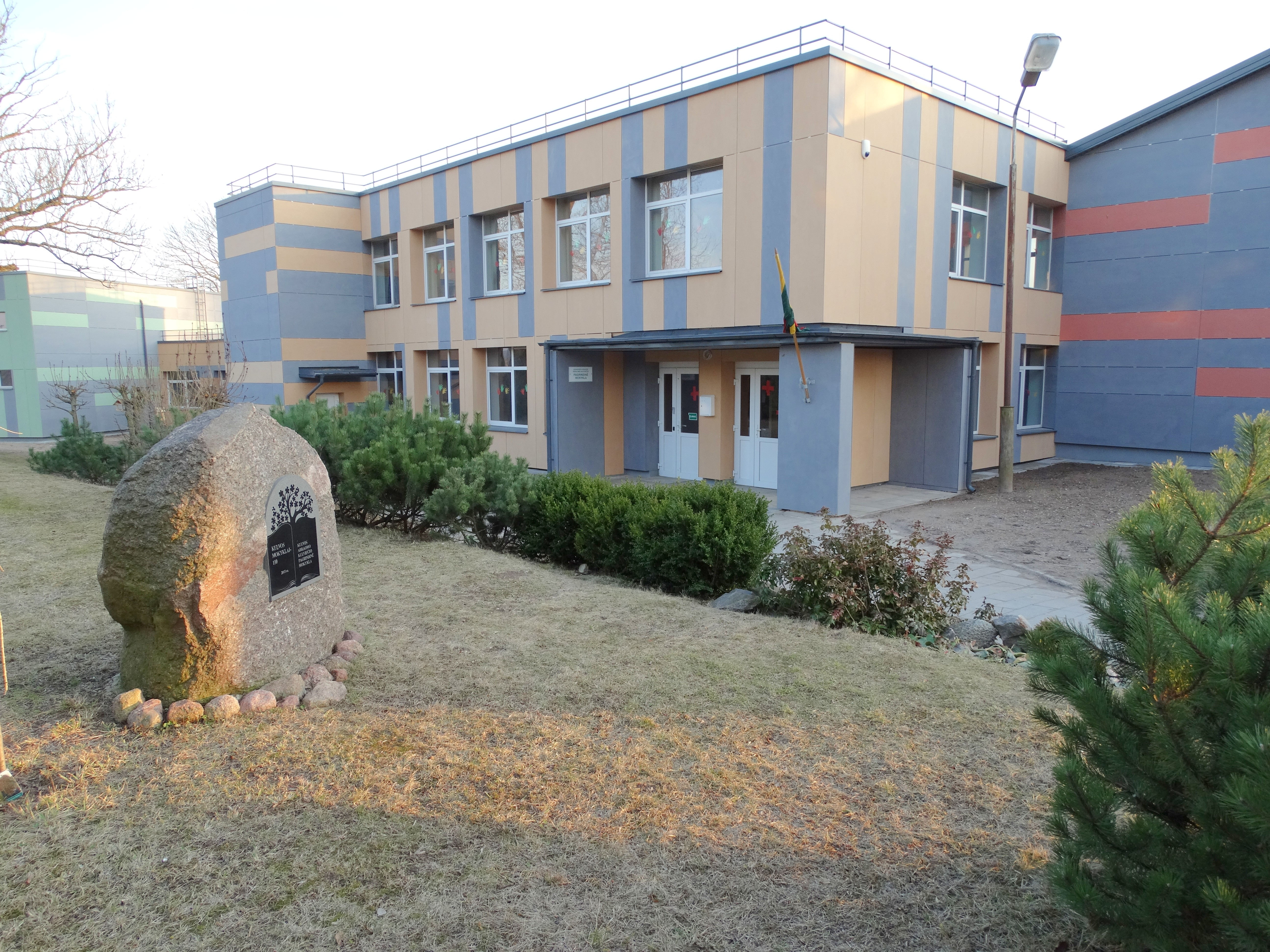 Basic school, Kulva, Jonava district, Lithuania